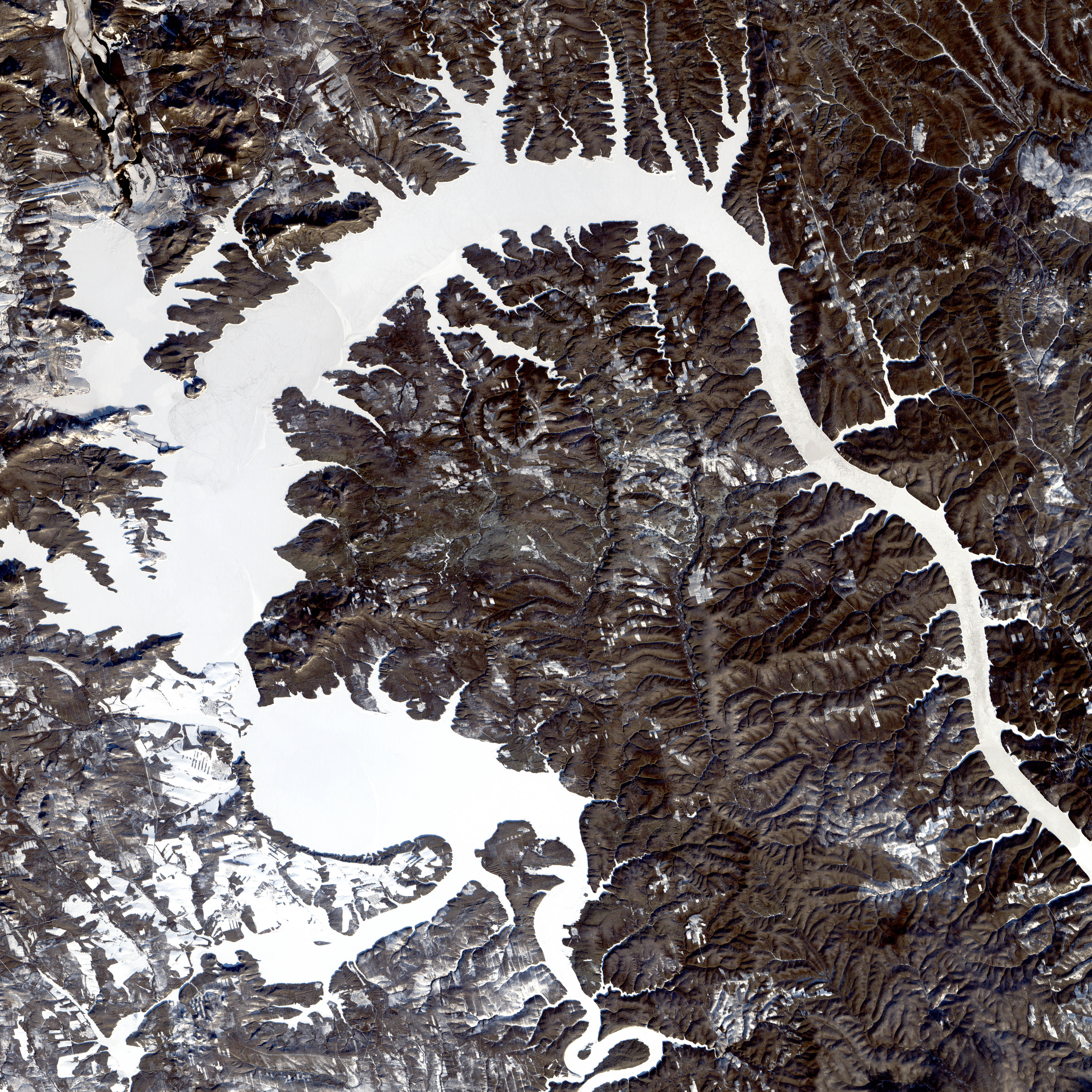 Bratskove Reservoir. December 19, 1999